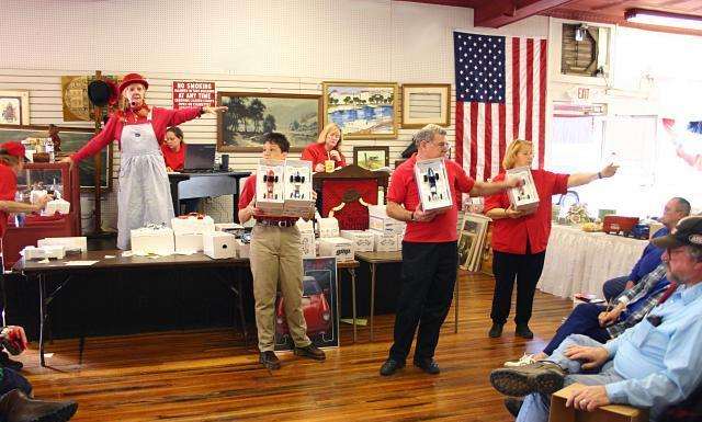 Auctioneer and assistants, Cheviot, Ohio, 2004, by Rick Dikeman copy of Image:Auction 640 2.jpg